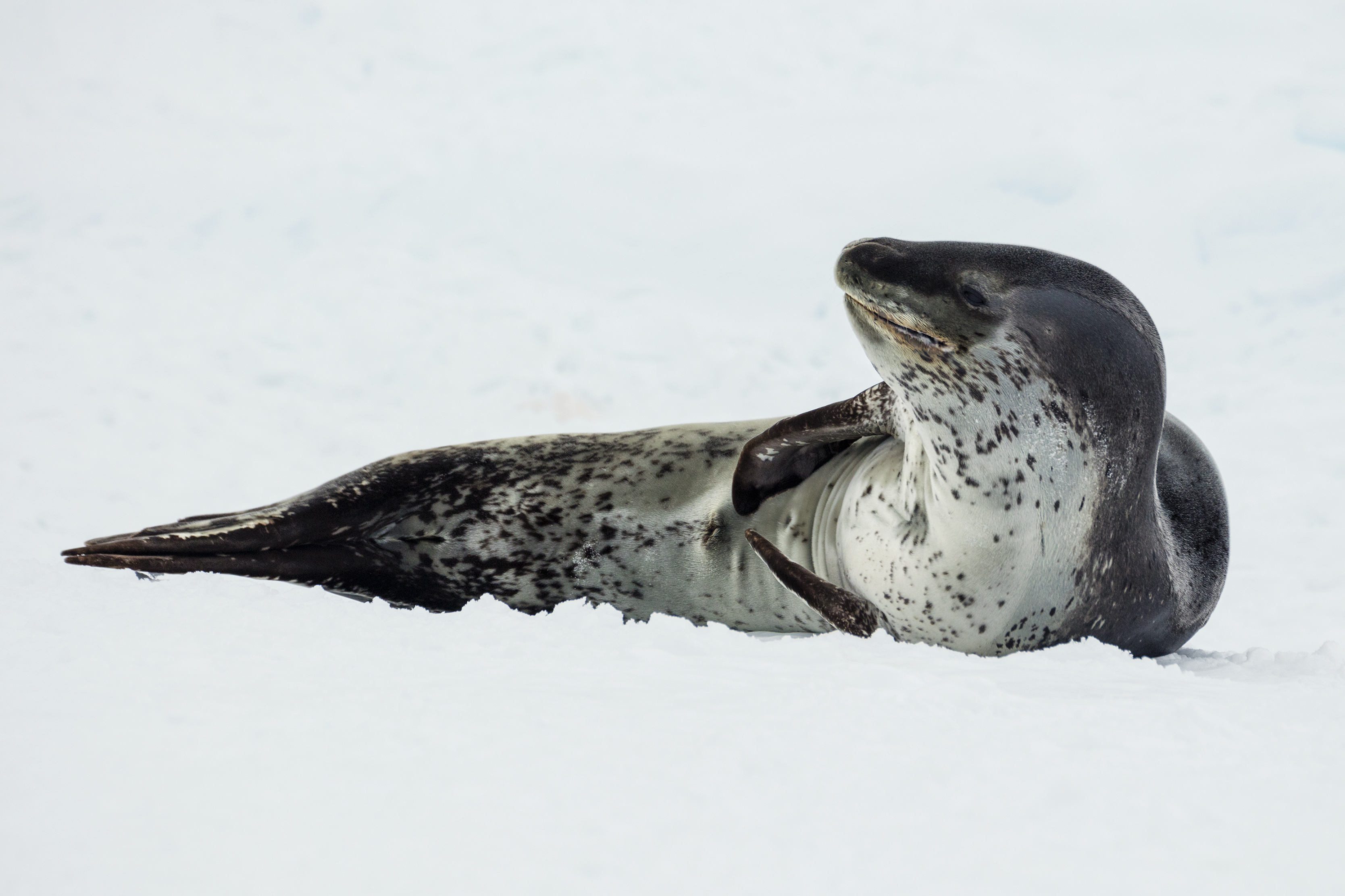 Leopard seal (Hydrurga leptonyx), Antarctic Sound, near Brown Bluff, Tabarin Peninsula